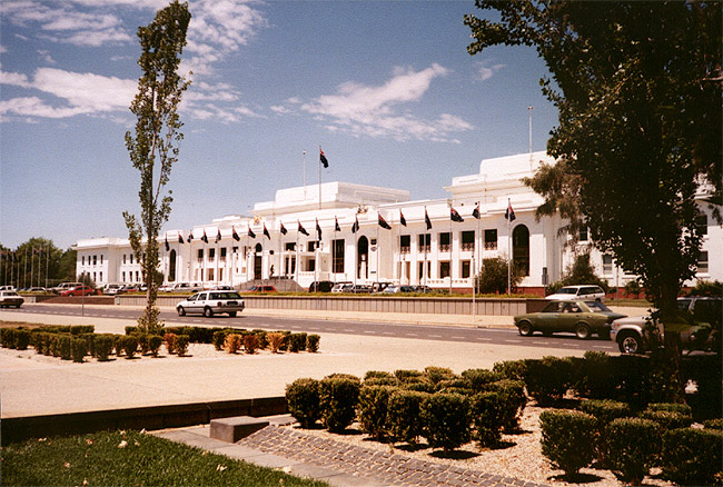 Old Parliament House, Canberra, Australia.